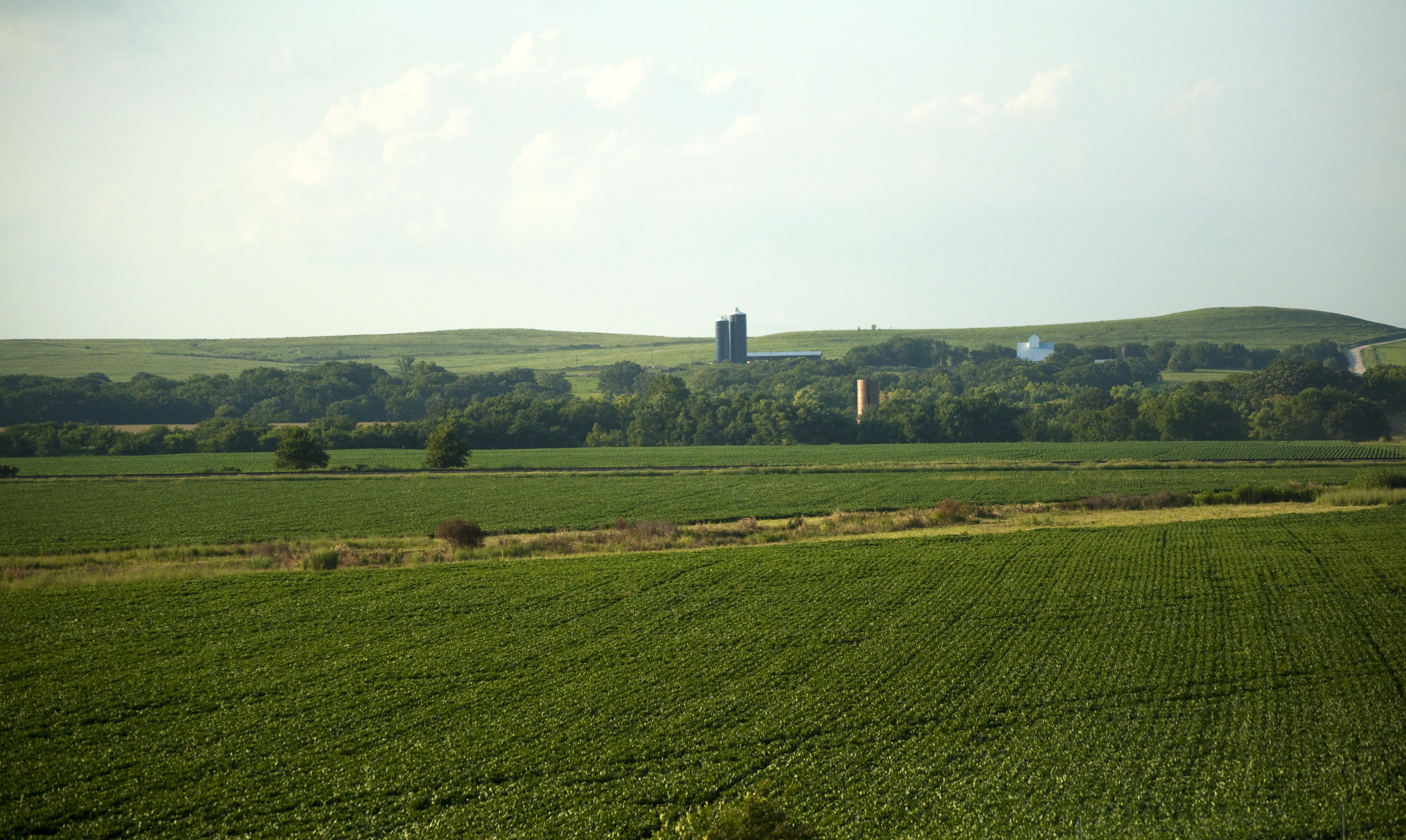 north america, road trip, great plains, kansas, farm